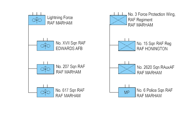 Lightning Force Graphic